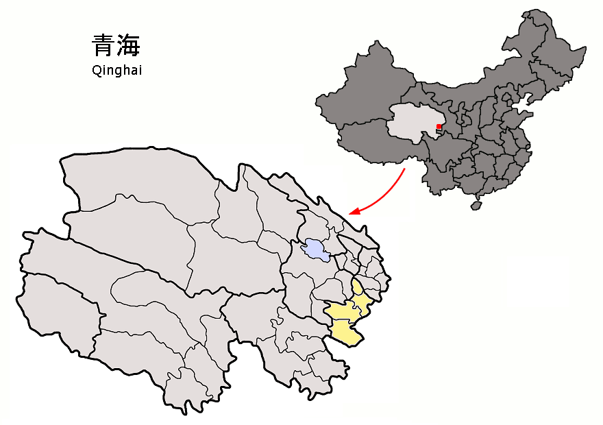 Location of Huangnan Prefecture (yellow) within Qinghai province of China Map drawn in september 2007 using various sources, mainly : Qinghai province administrative regions GIS data: 1:1M, County level, 1990 Qinghai Counties map from "Plateau Perspectives" (the limits of some county-level subdivisions may not be accurate)